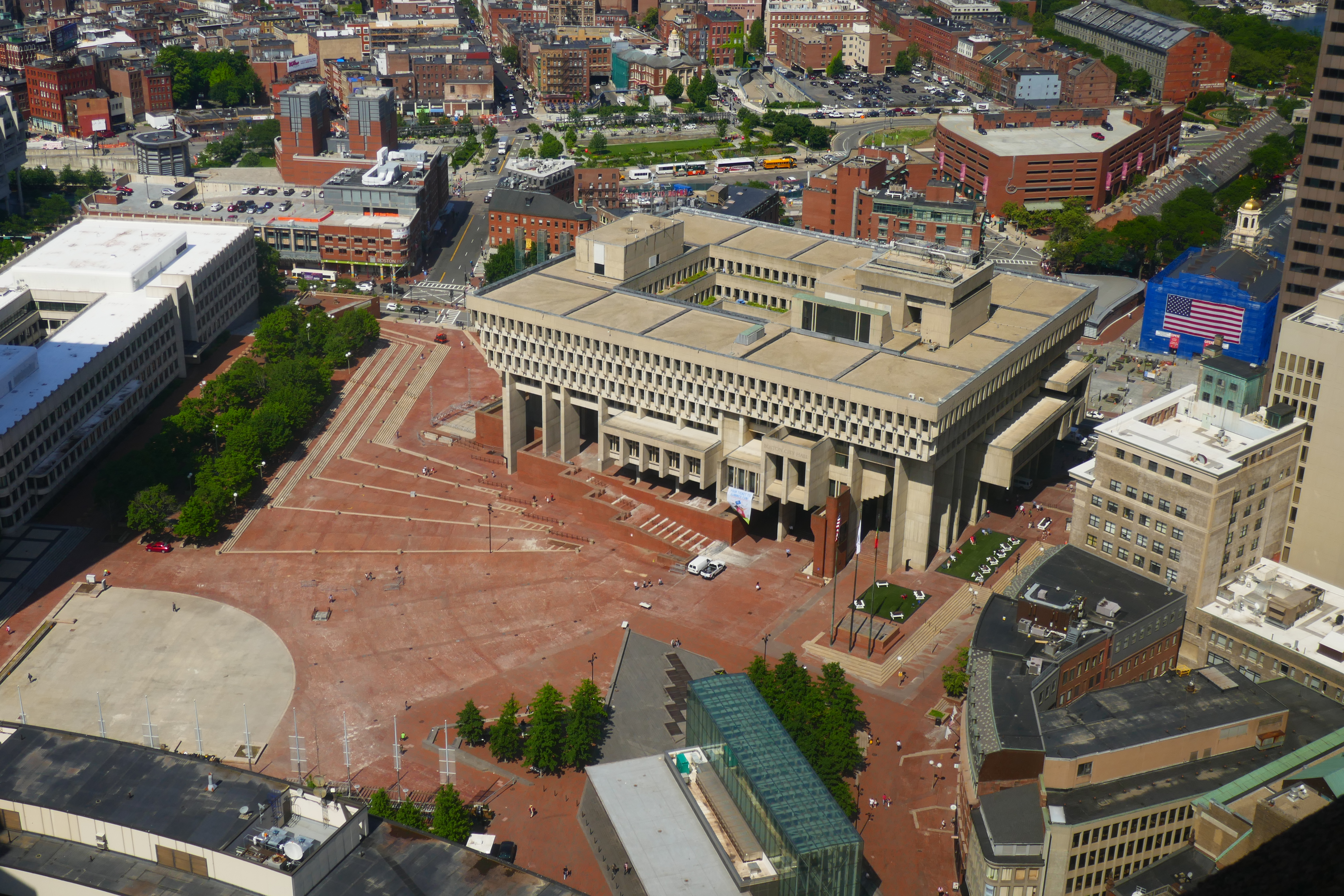 View of City Hall Plaza from One Beacon Street. Faneuil Hall, at upper right, has an American flag covering construction scaffolding.